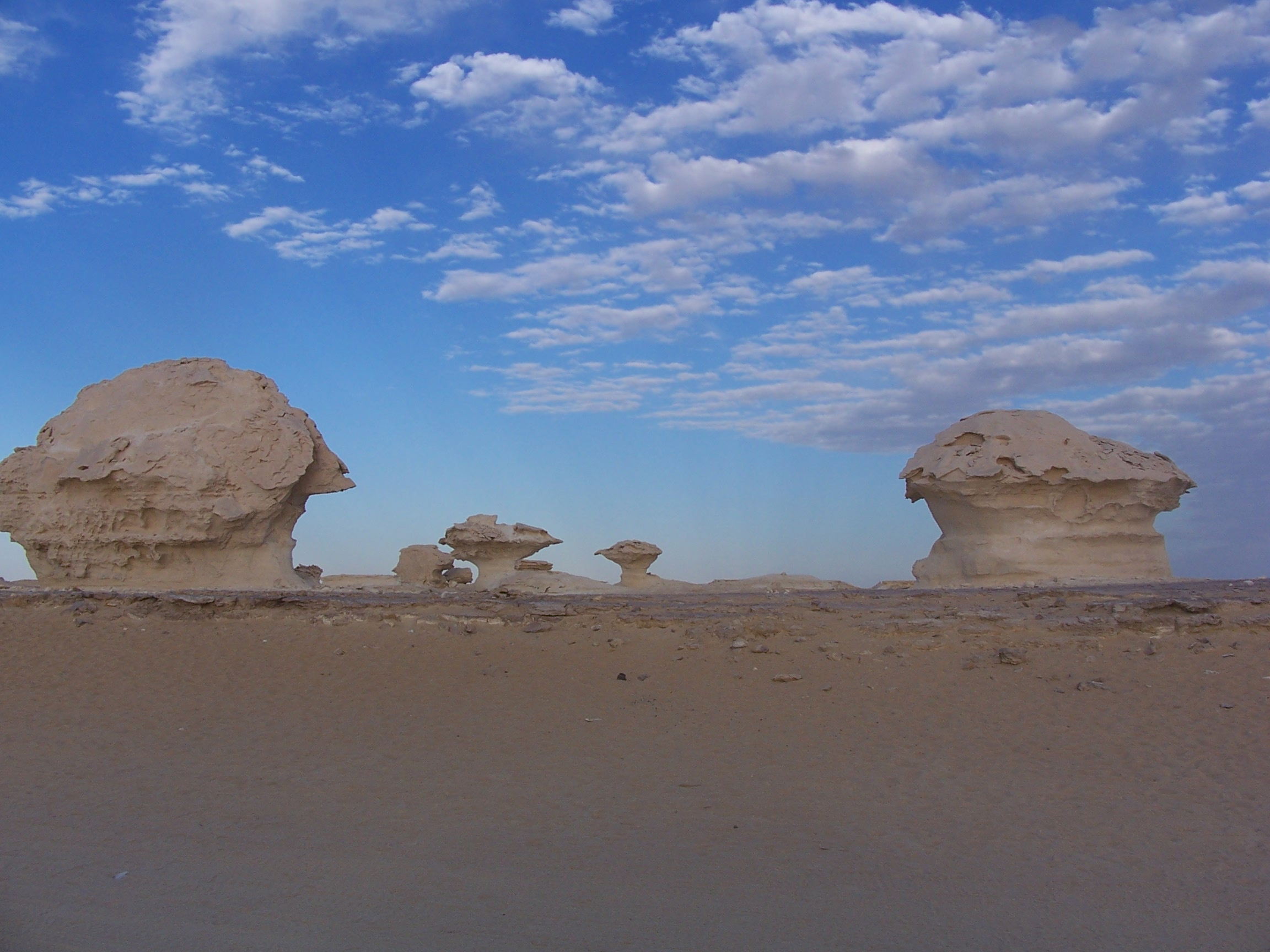 "Mushroom rock" formations in western Egypt's White Desert - near Farafra Oasis. 360 km from Cairo.